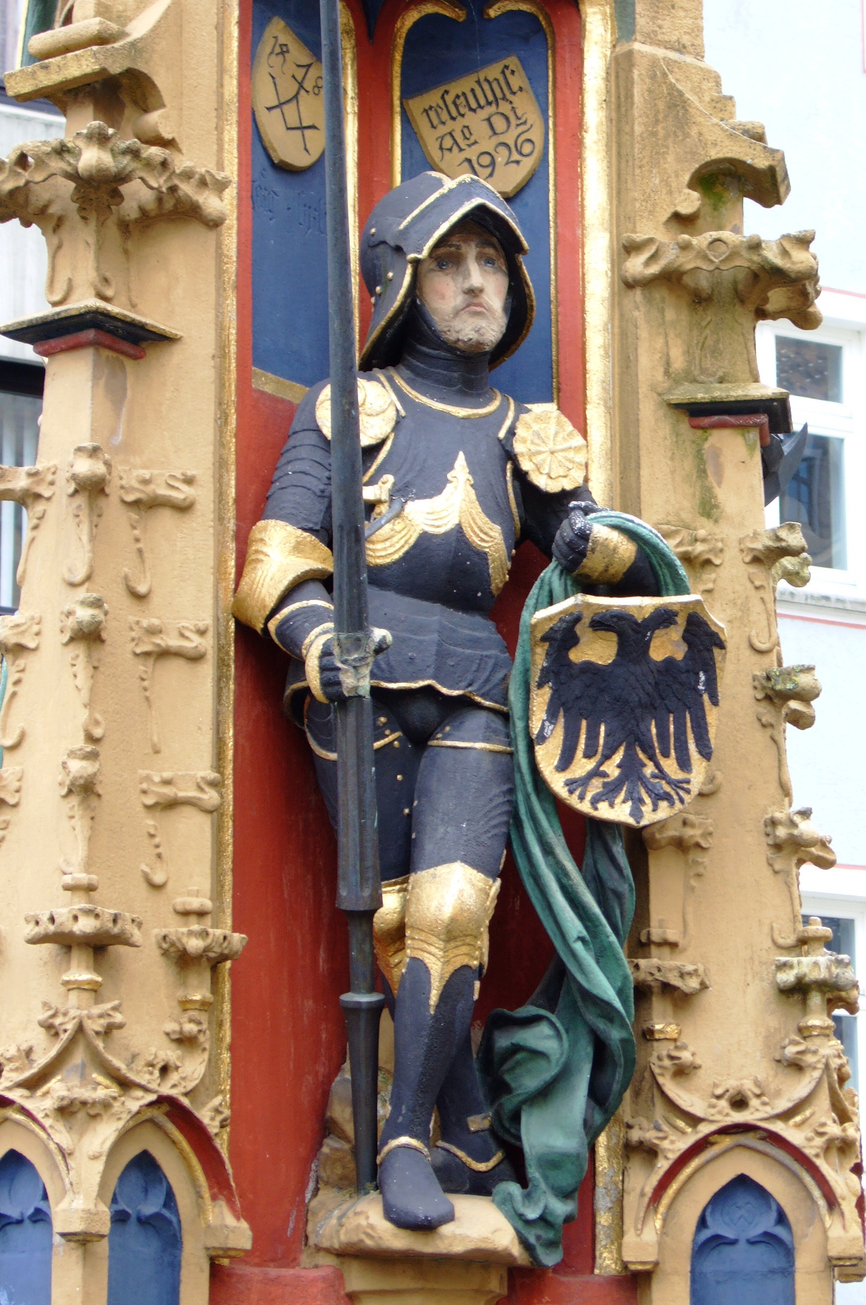 Statue on the well "Fischkastenbrunnen" near the town hall of Ulm/Germany, figurs (knight) by Michel Erhart ca. 1482 Michel Erhart Alternative namesErhart, MichaelDate of birth/deathbetween circa 1440 and circa 1445after 1552Location of birth/deathUlm (?)Work locationUlmAuthority control VIAF: 45096461 ISNI: 0000 0000 8124 0348 LCCN: n83198675 GND: 118685147 RKD: 257110 WorldCat